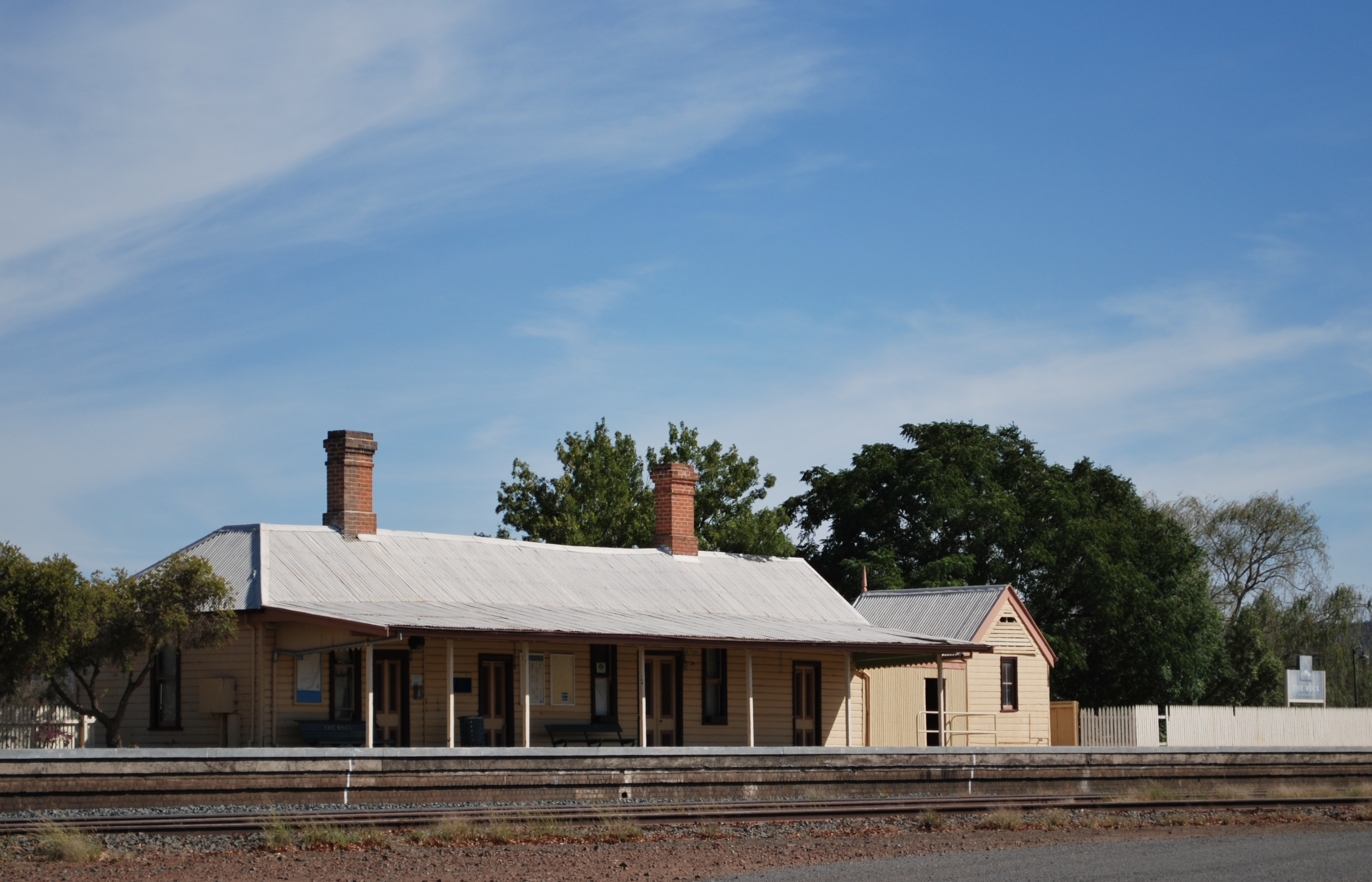 Train station at The Rock, New South Wales